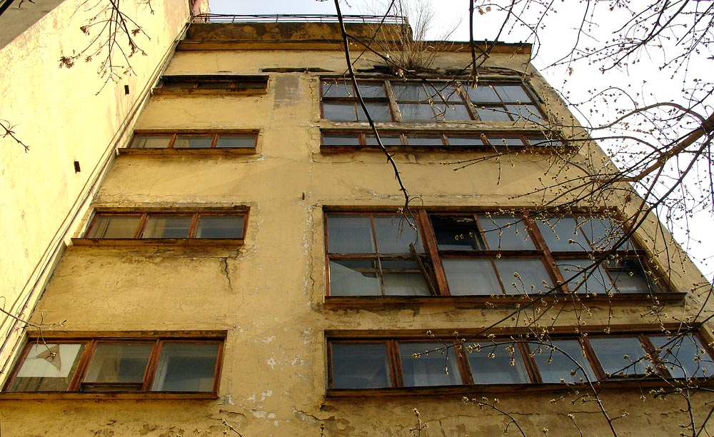 Narkomfin Buildings in Moscow, March 2007. Some residents still living there. View from western (US Embassy fortress) side